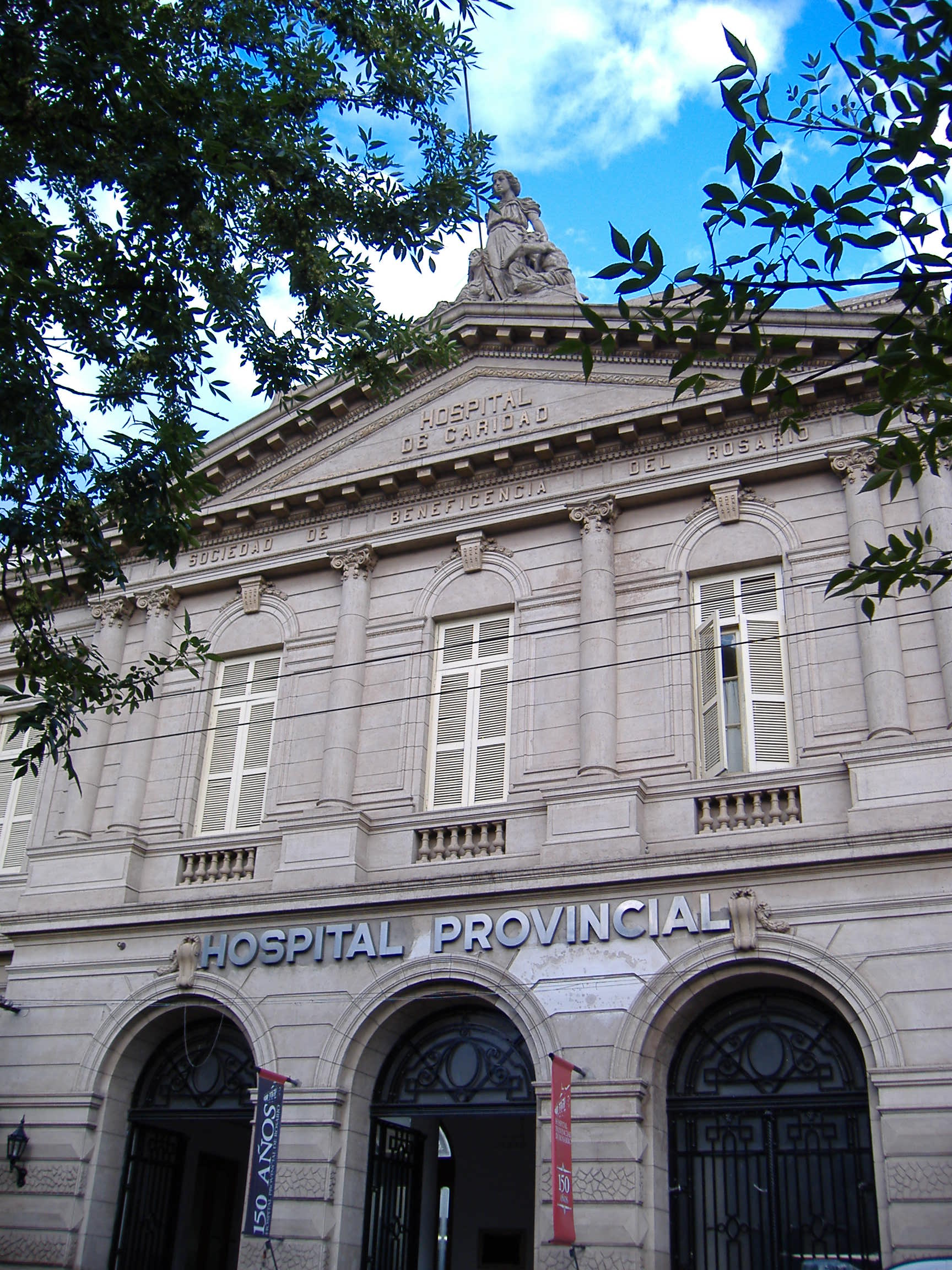 Rosario Provincial Hospital, one of the two large public hospitals in Rosario, Argentina, depending on the government of the province of Santa Fe. The old inscription on top of the facade reads "Charity Hospital" and below "Benefical Society of Rosario".